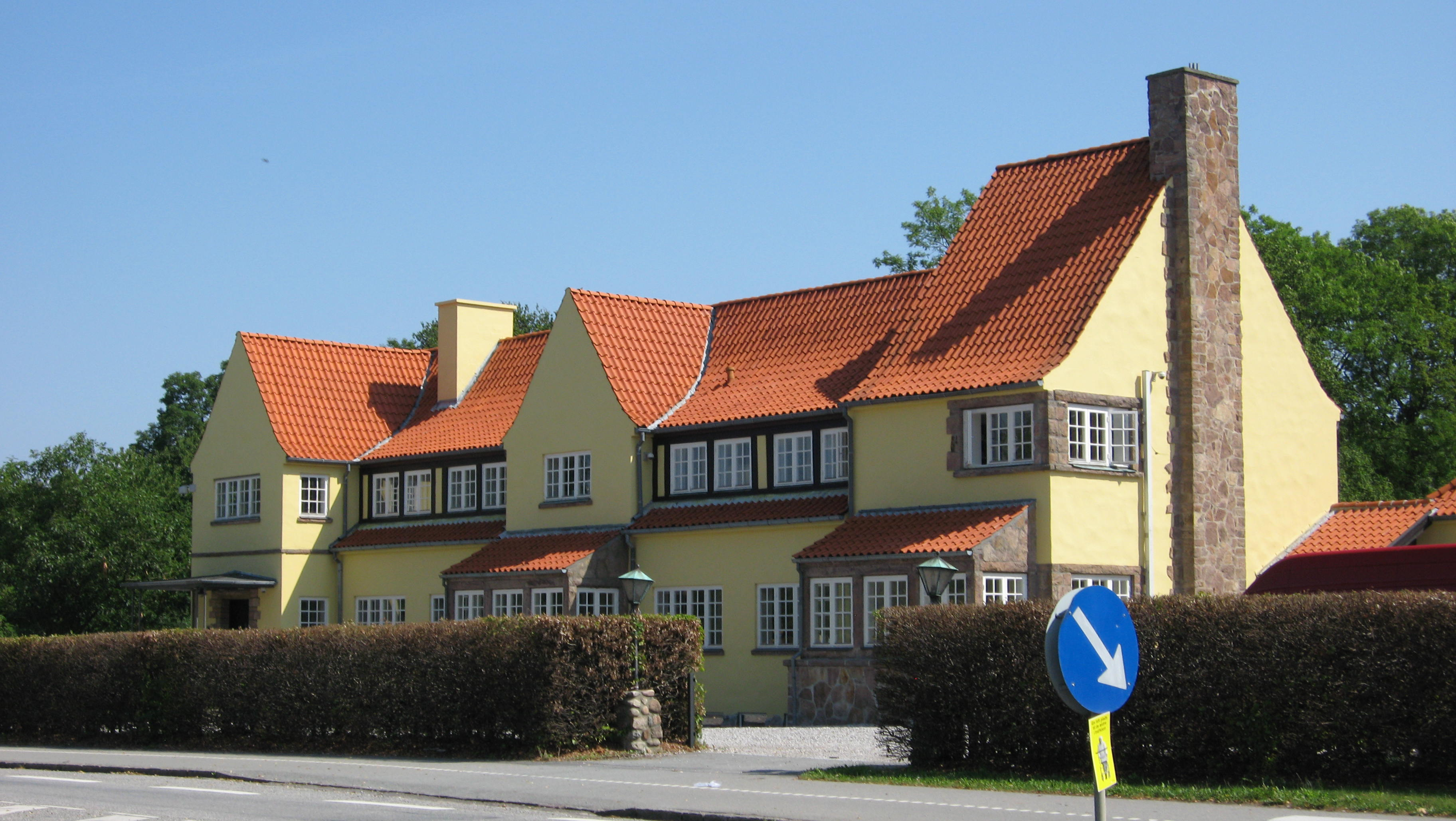 Køllesgaard, an inn in Humlebæk, Zealand, Denmark. Designed 1932 by architect Carl Brummer.